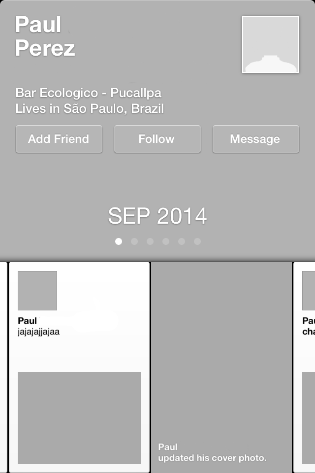 Paper is a iOS application for Facebook. No background used.